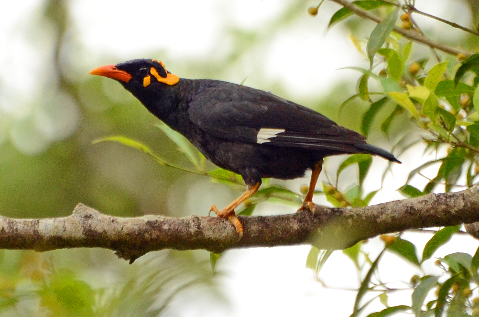 Southern hill myna (Gracula indica) on a ficus tree in anaimalai hills1